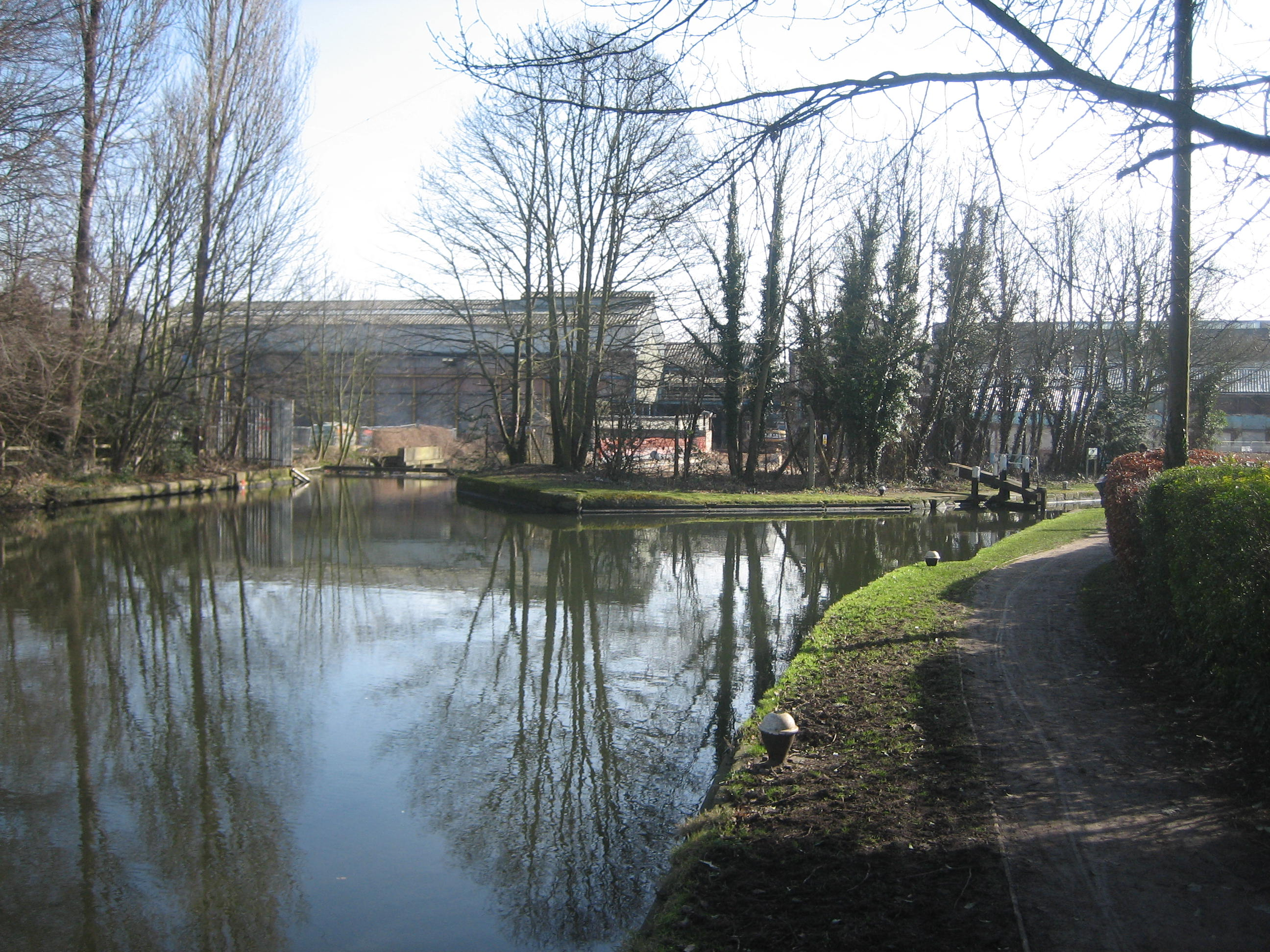 Nash Mills fromt he Grand Union canal during demolition of the Sappi paper factory